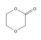 p-dioxanone